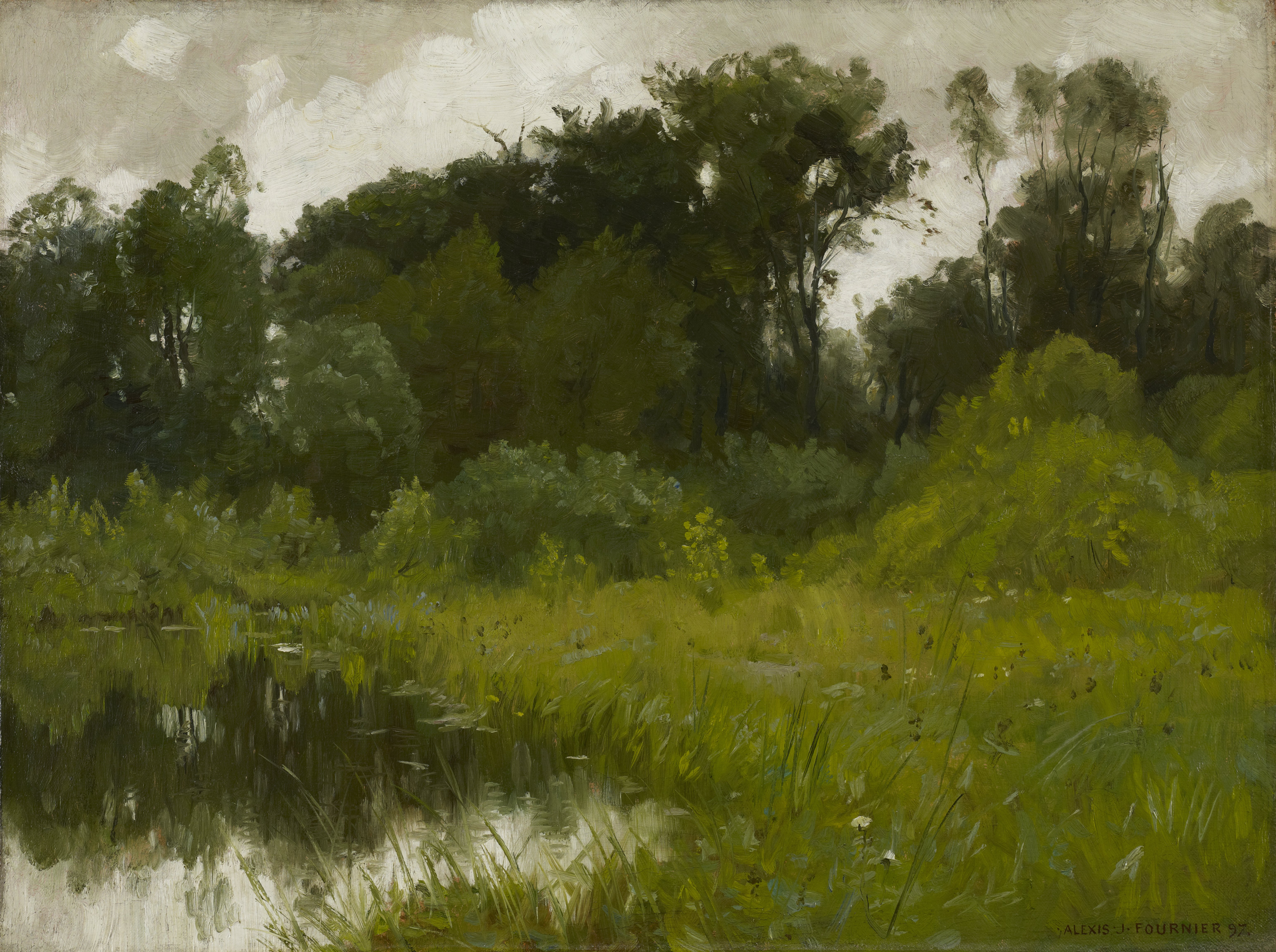 Landscape